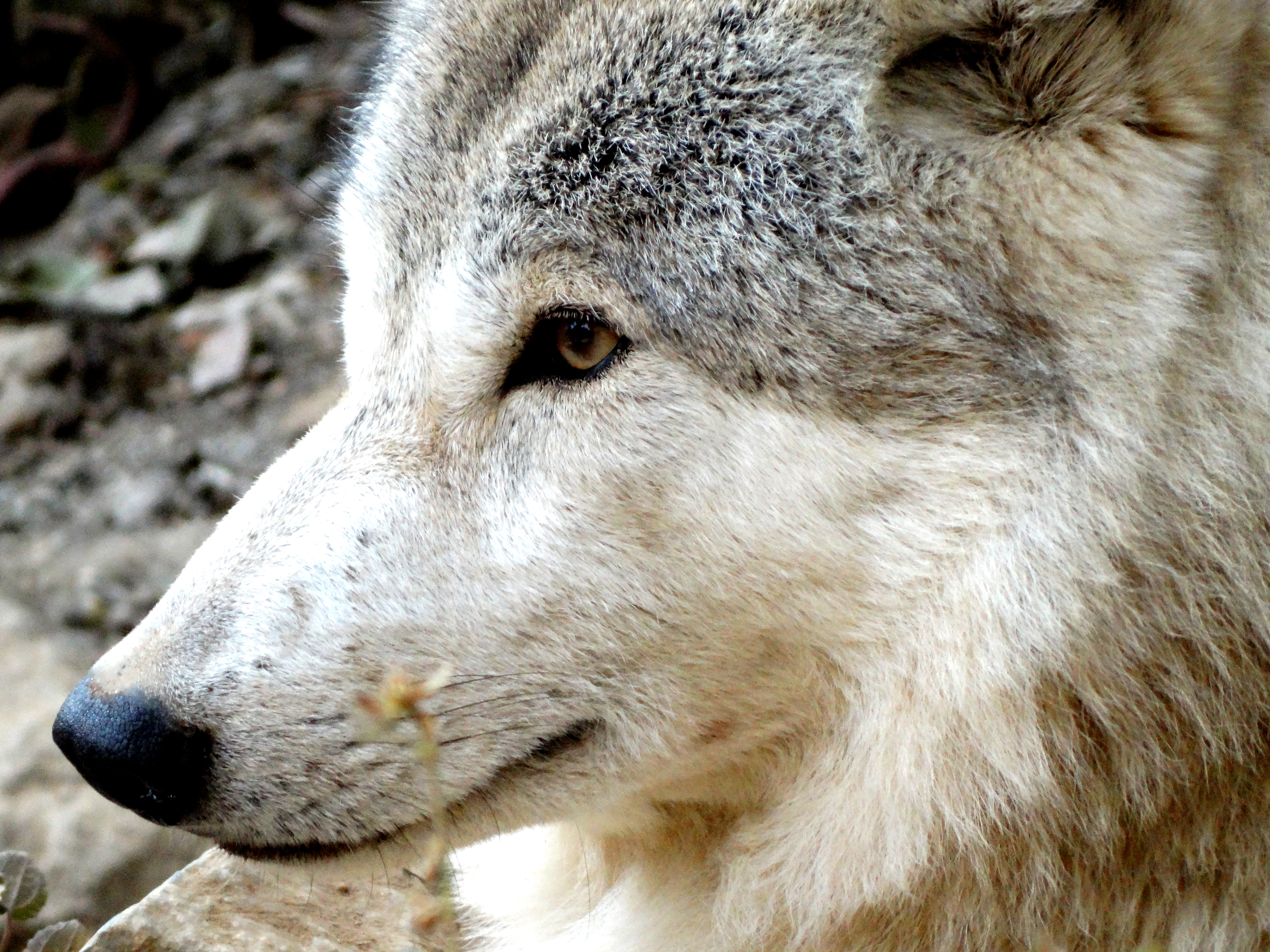 Zoo in Darjeeling